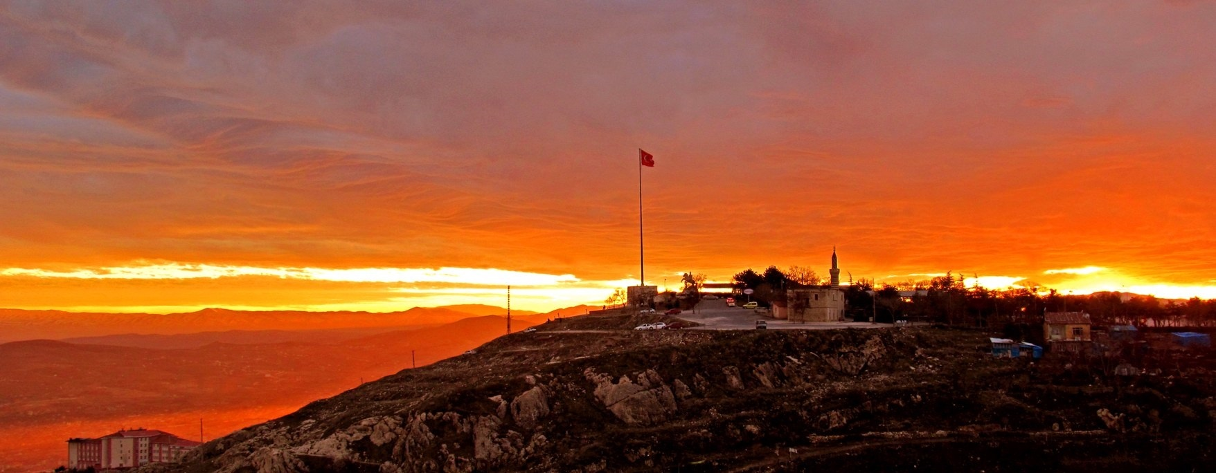 Harput evening view